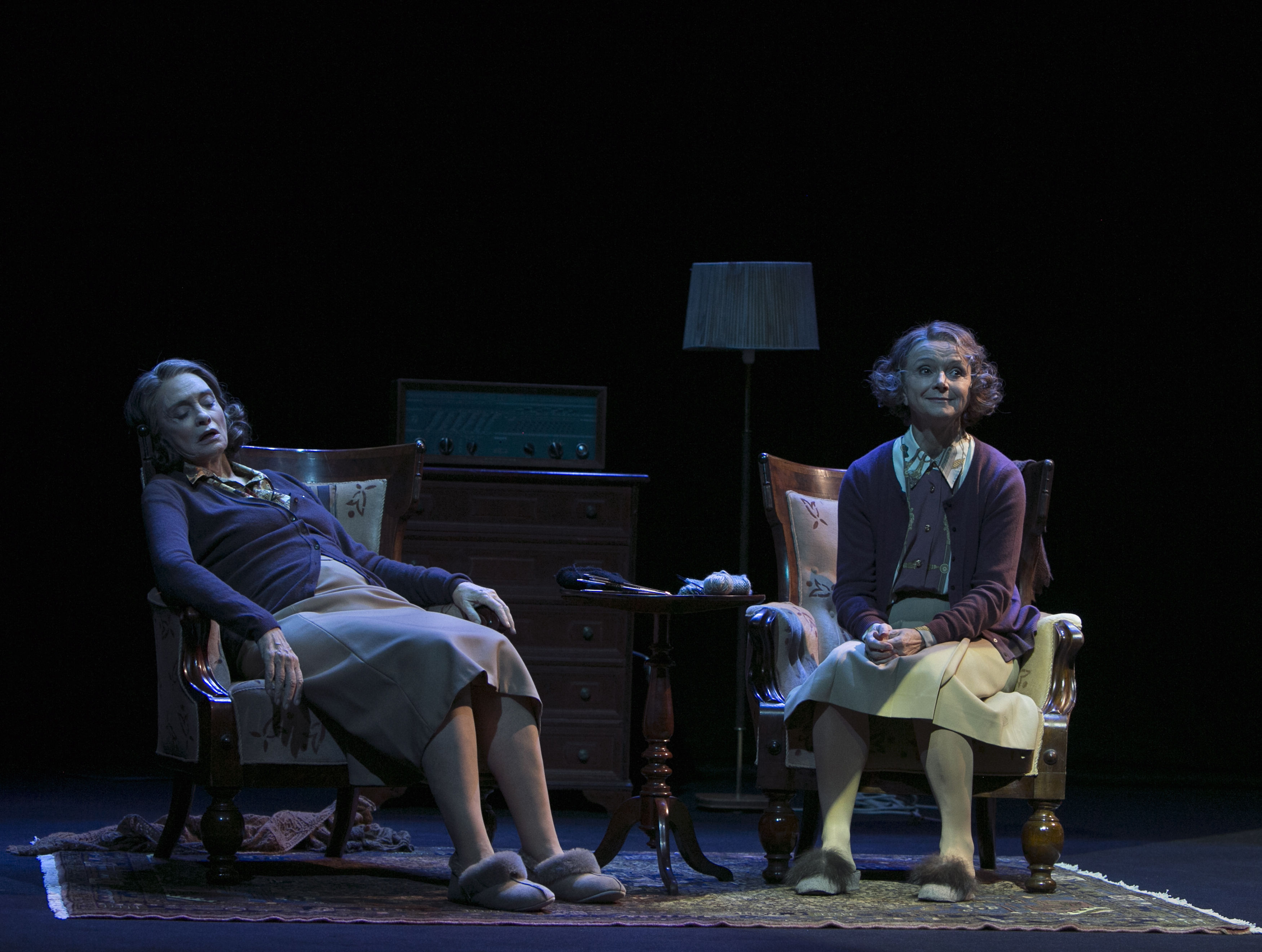 Malene Schwartz and Sonja Oppenhagen in the Copenhagen theater Folketeatret's production of the play "Skærmydsler" by Gustav Wied.